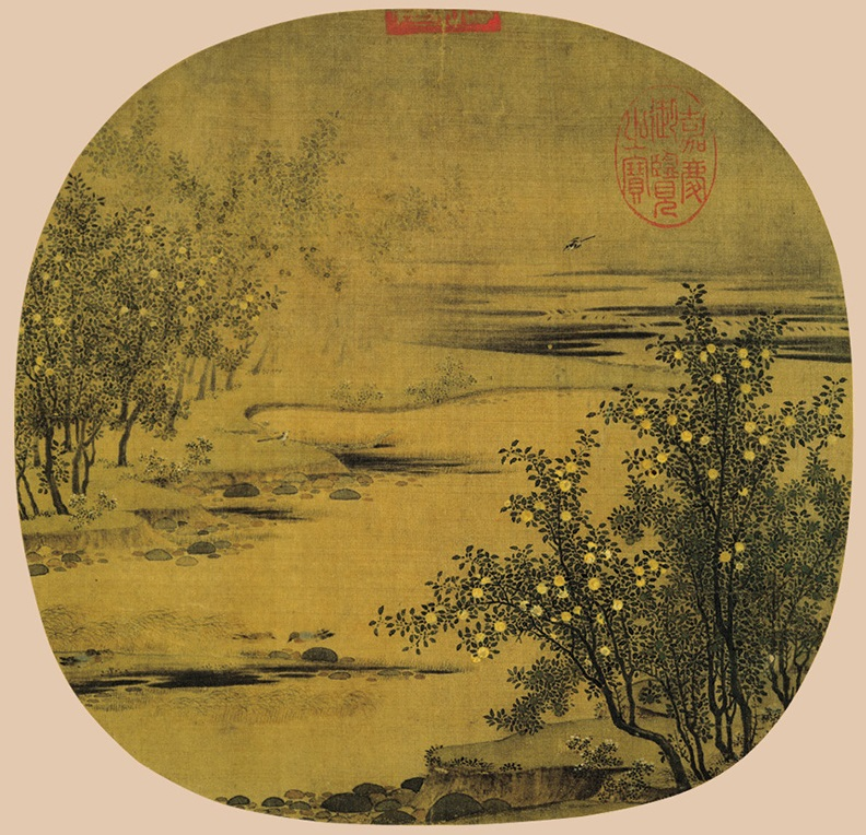 Chinese fan painting from the Song dynasty inspired by For Liu Jingwen (贈劉景文), a poem written by Su Shi. You must remember, the best scenery of the year, Is exactly now, when oranges turn yellow and tangerines green.